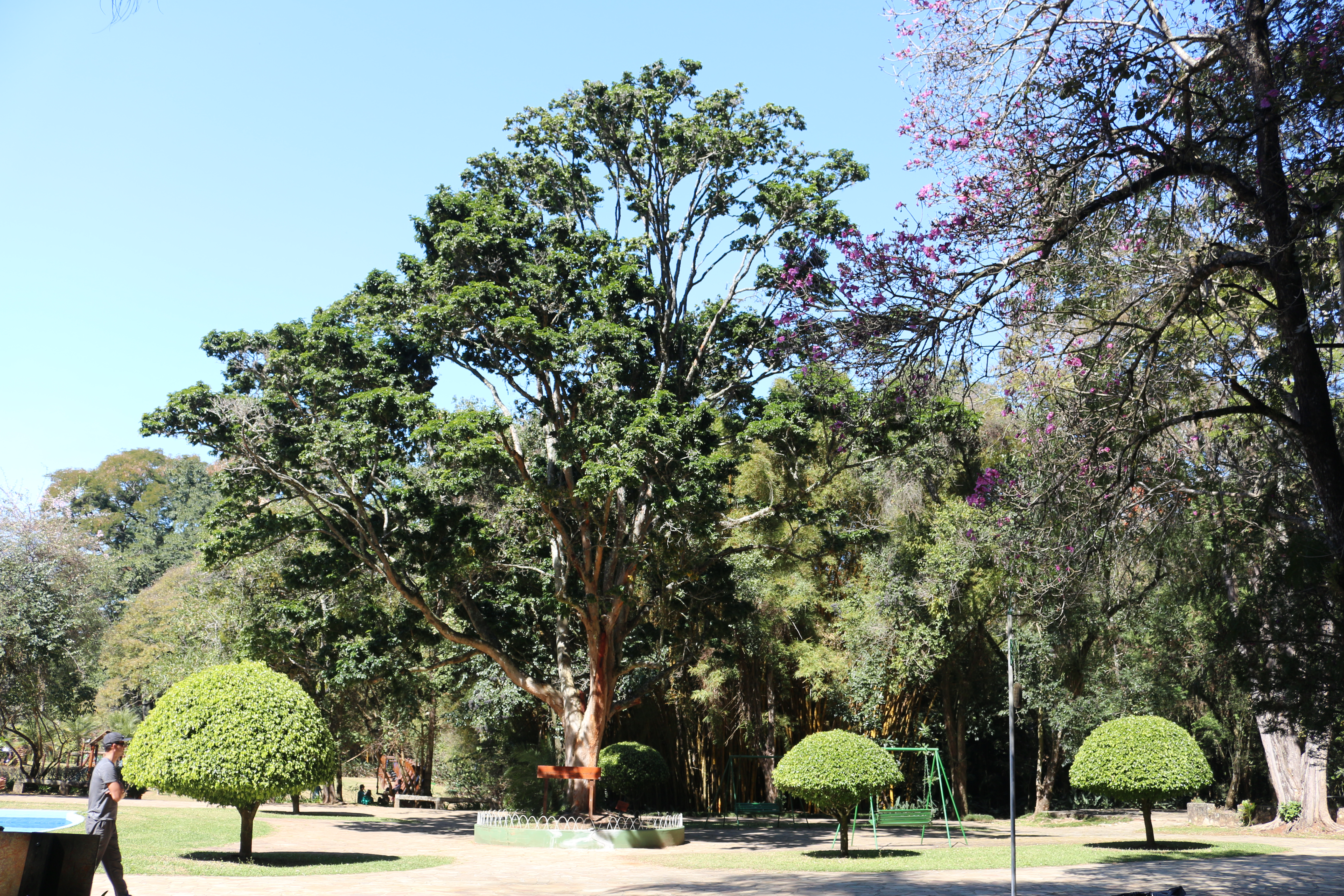 Caesalpinia echinata or Pau-brasil, this tree was planted by Brazilan President Getúlio Vargas in his visit to Parque da Águas in São Lourenço-MG.